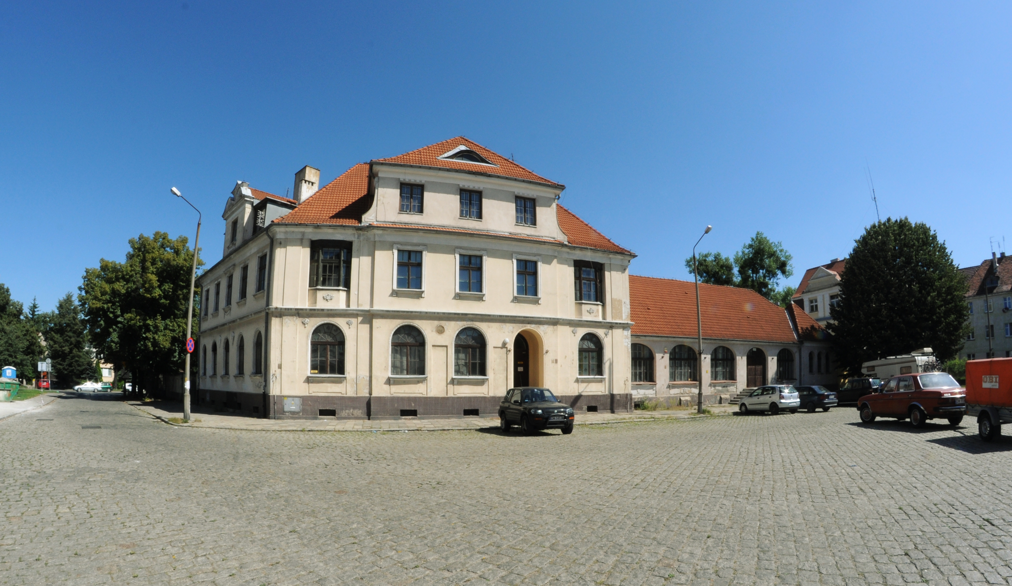 Building at 2-4 Piłsudskiego Square, Wrocław, Poland. Cultural heritage monument.